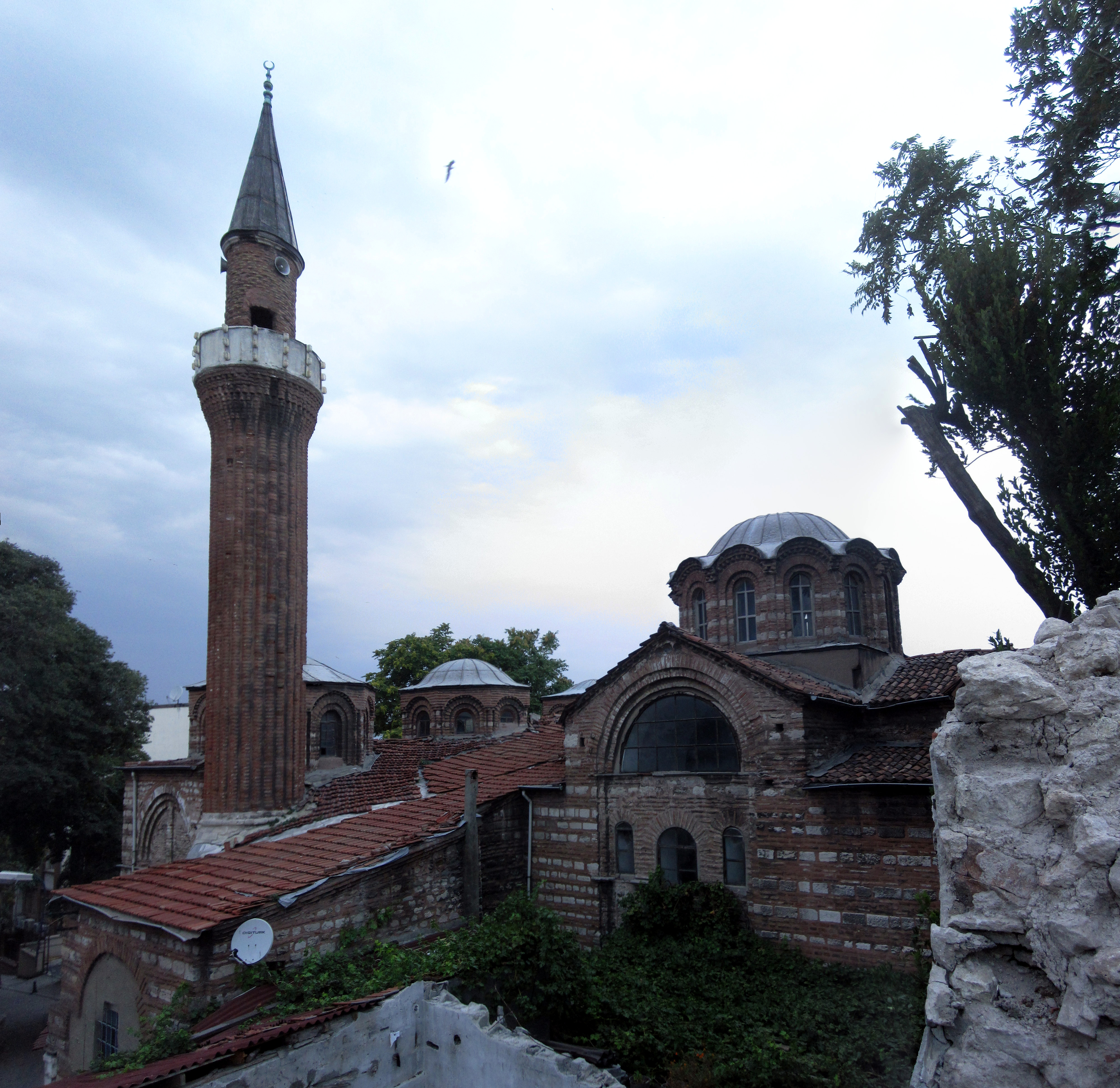 Molla Gürani Mosque, south view. All four domes are at least partially visible.